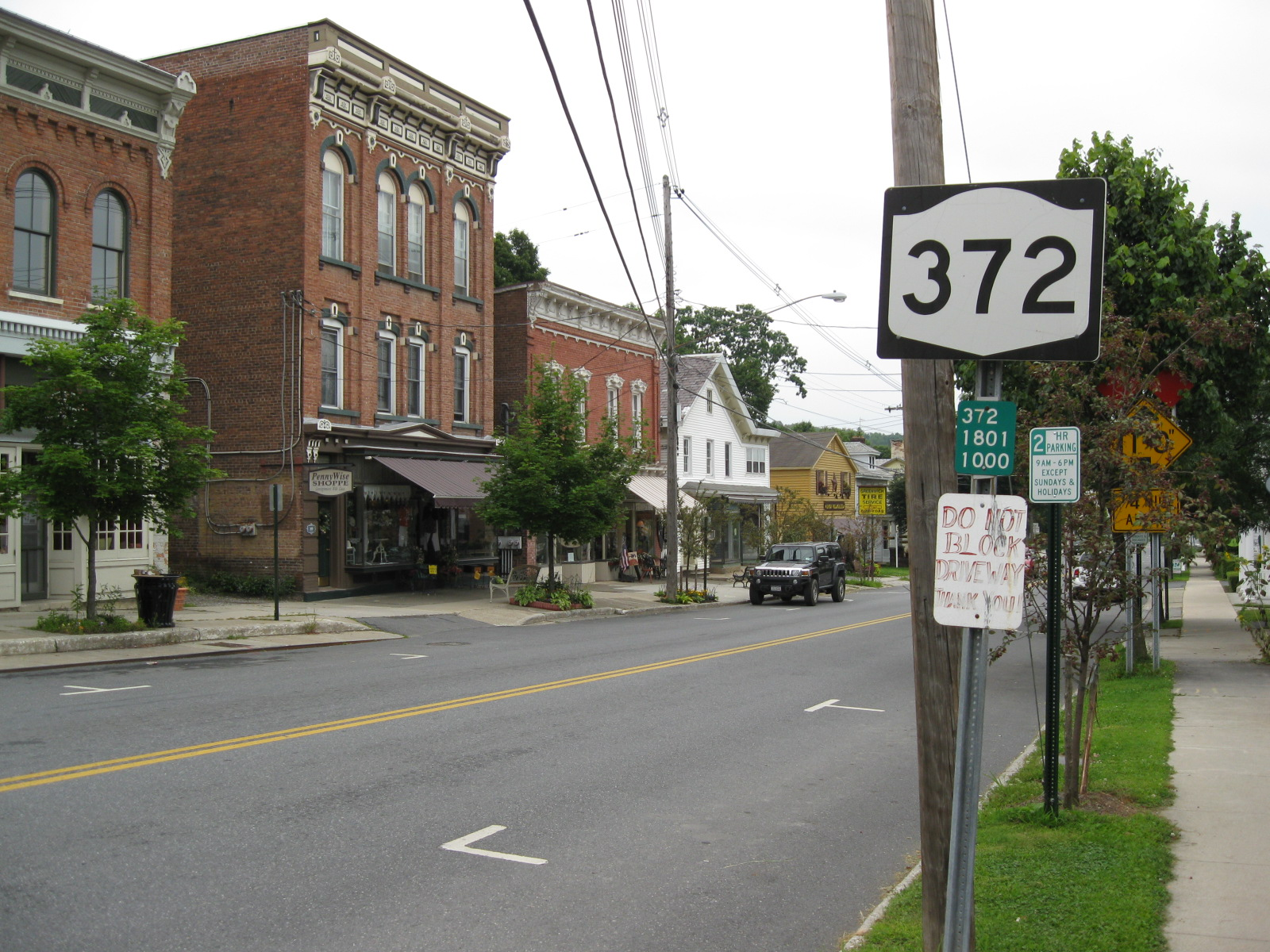 A view of New York State Route 372 heading eastbound in the village of Greewnich, NY.